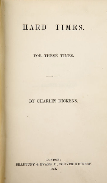 Frontispiece of Hard Times (1st Edition, novel) by Charles Dickens